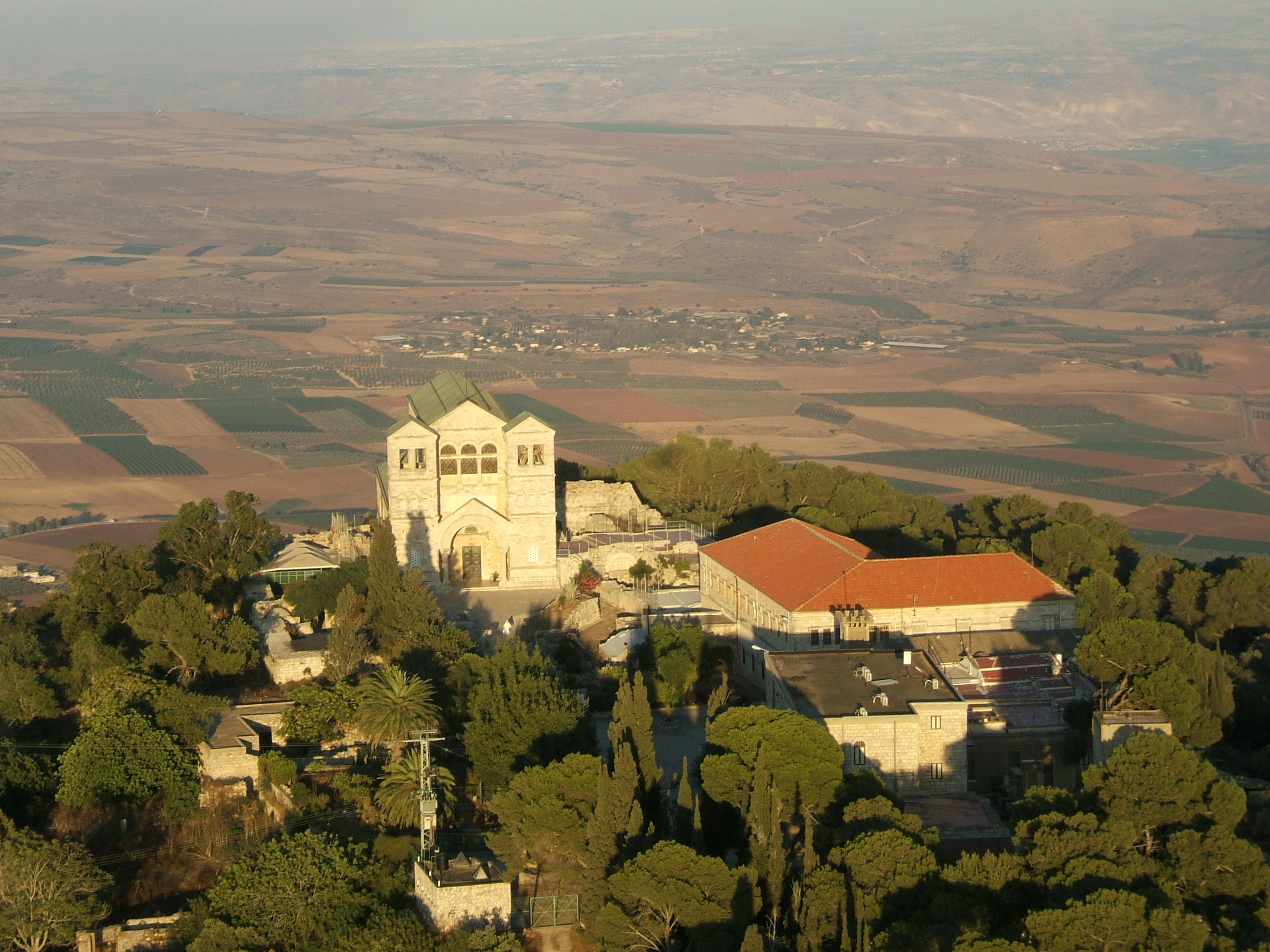 Photo of traditional site of Transfiguration of Jesus Christ (Mount Tabor). The village on the plain in the background is Kfar Kish. Taken in Israel 2005 by myself (Bantosh).